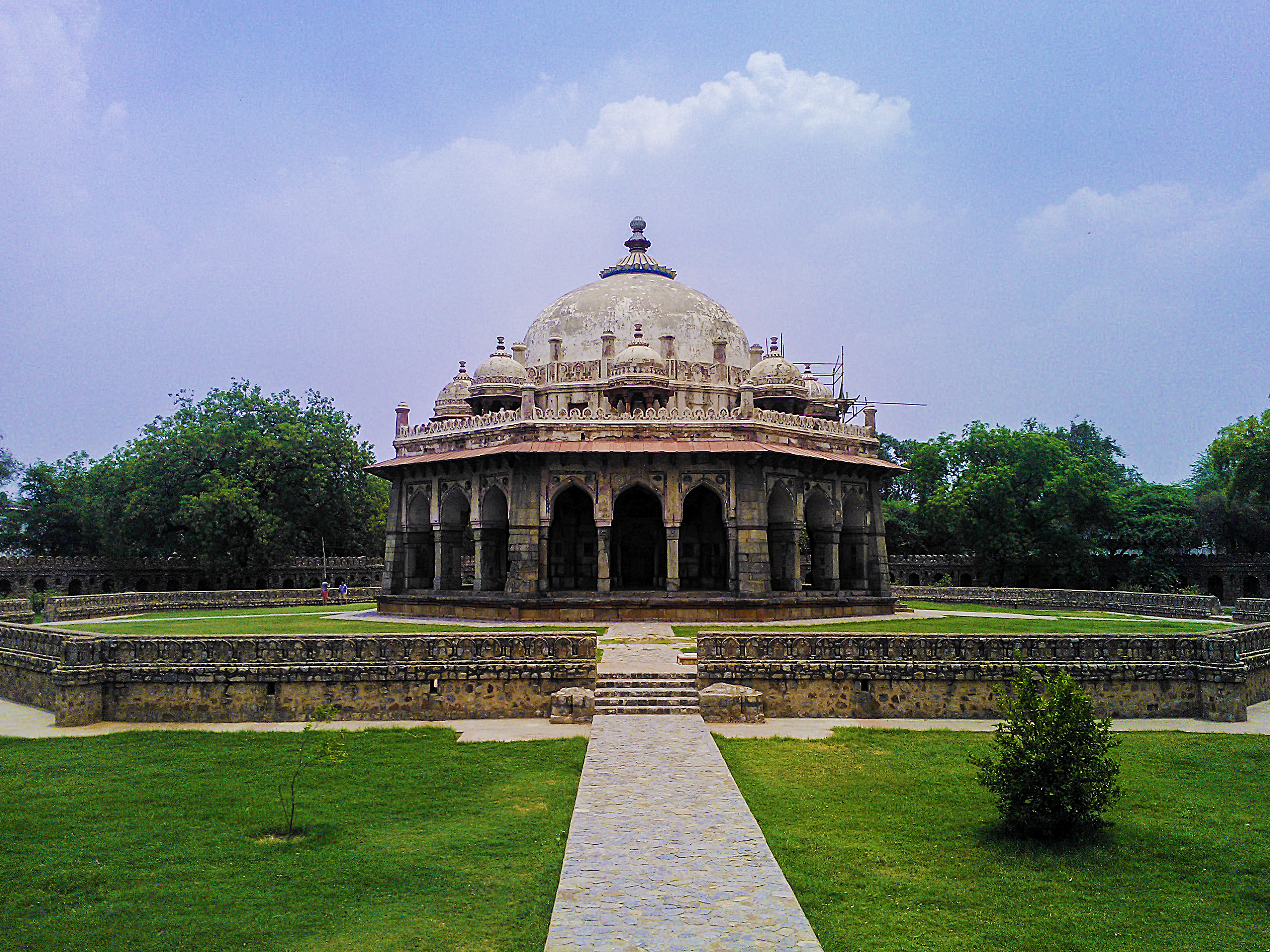 Tomb and Mosque of Isa Khan